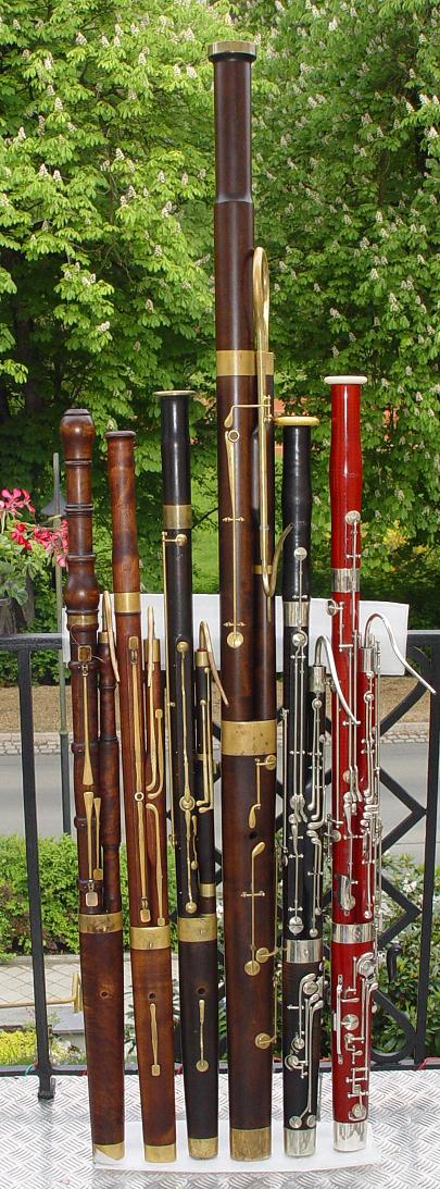 Bassons in different styles, including baroque, classical and modern, plus classical contrabassoon